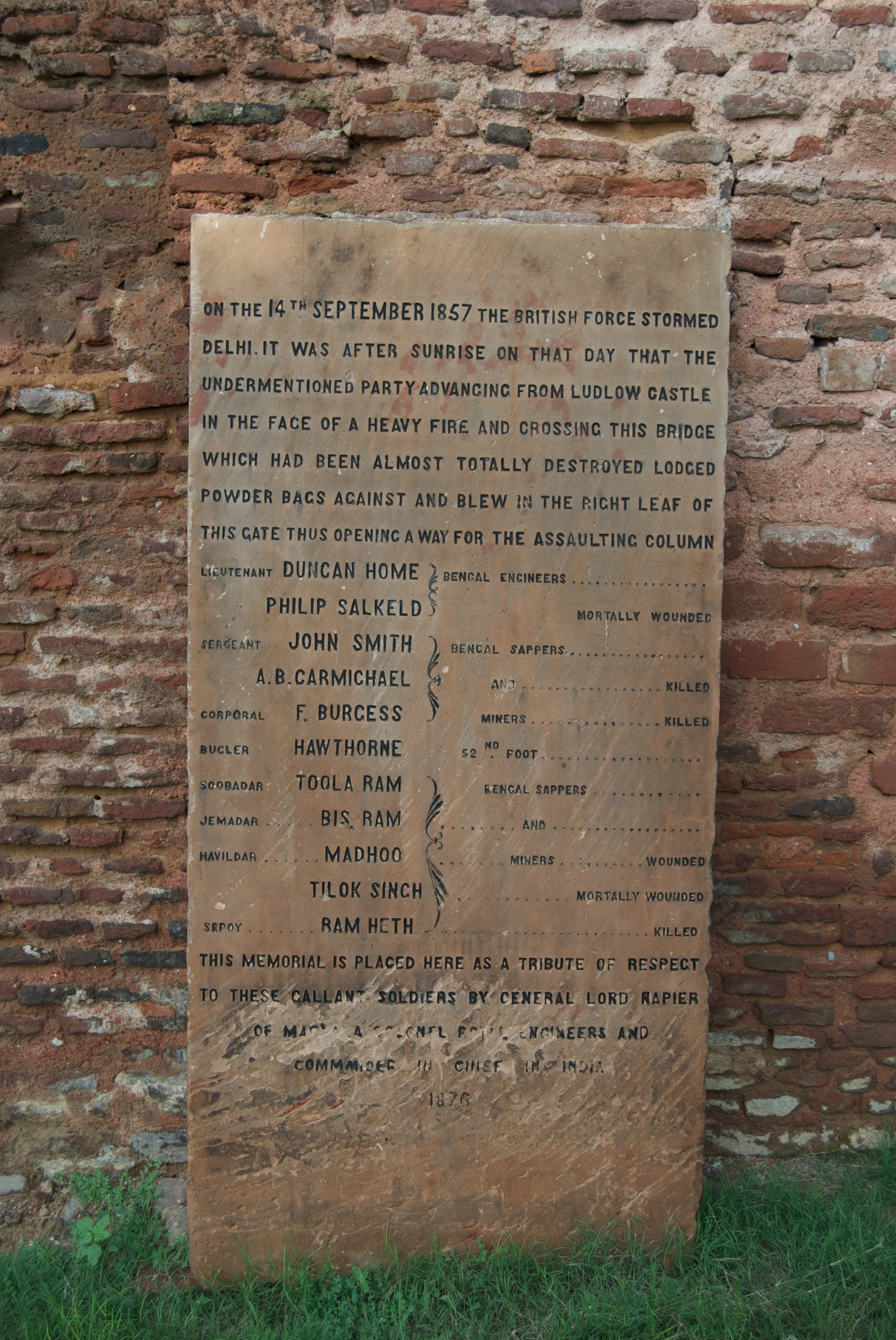 Plaque at the Kashmiri Gate. Description of events that happened there.